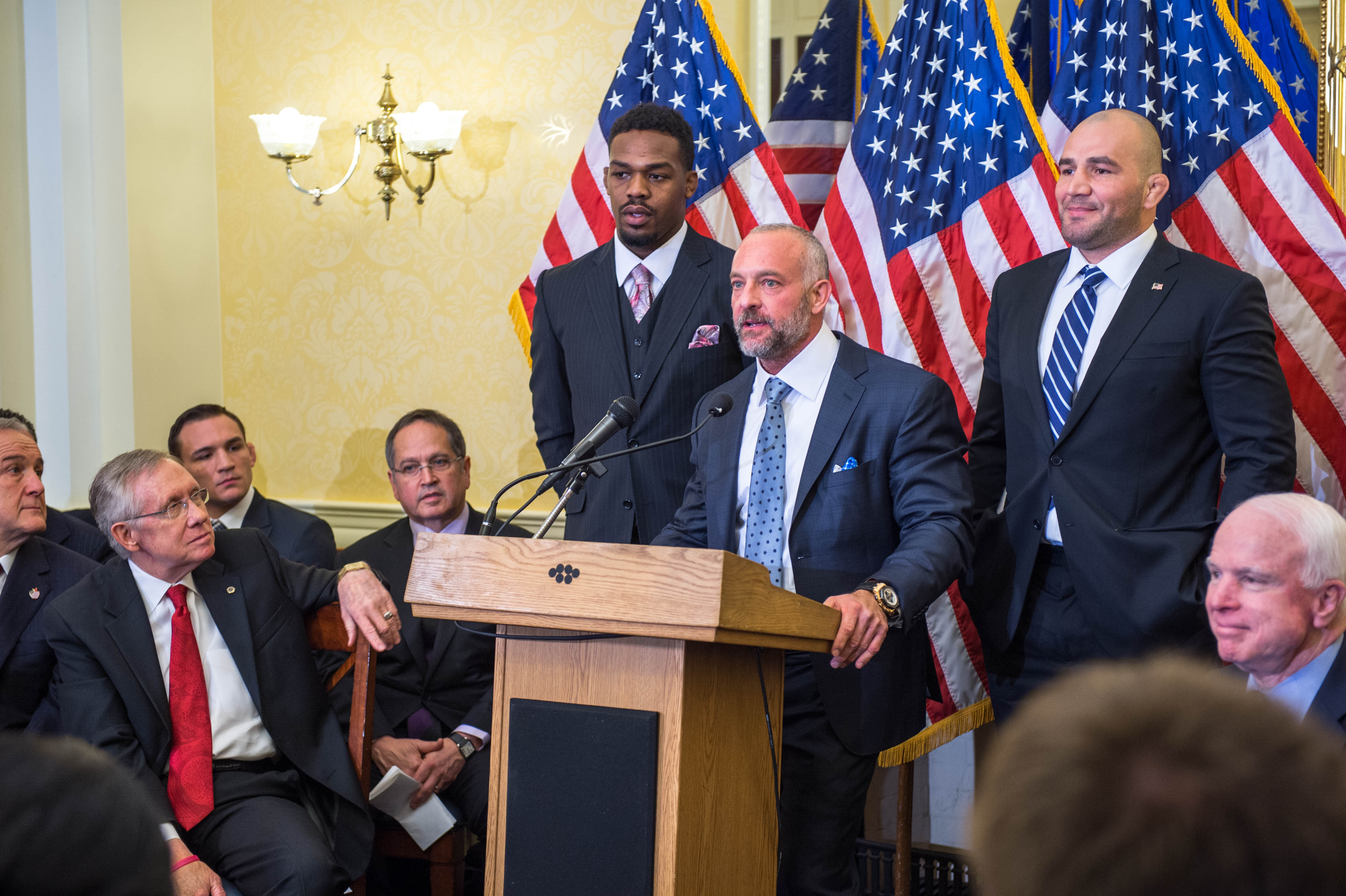 UFC Chairman and CEO Lorenzo Fertitta speaks during a U.S. Senate event in support of a Cleveland Clinic brain study, flanked by UFC fighters Jon Jones (left) and Glover Teixeira (right). U.S. Senator from Nevada Harry Reid is seated at left; U.S. Senator from Arizona John McCain seated at right.